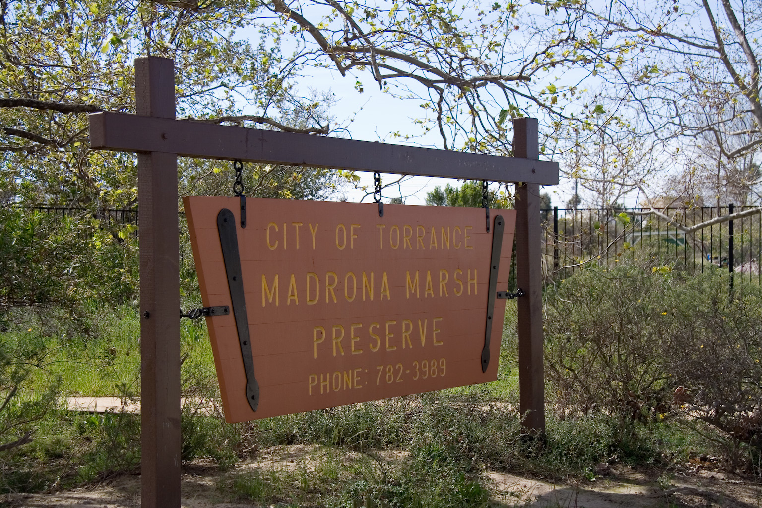 Photograph of the wooden sign in front of the entrance gate to the Madrona Marsh nature reserve in Torrance, California. Photograph by Josh Korwin of three steps ahead. Uploaded by the author.